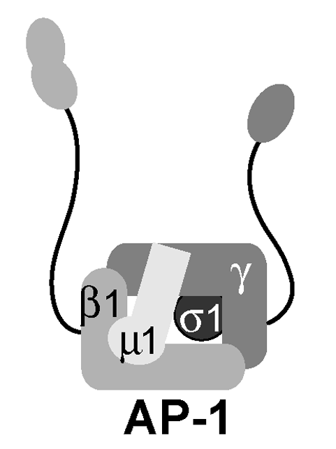 AP-1 complex subunits